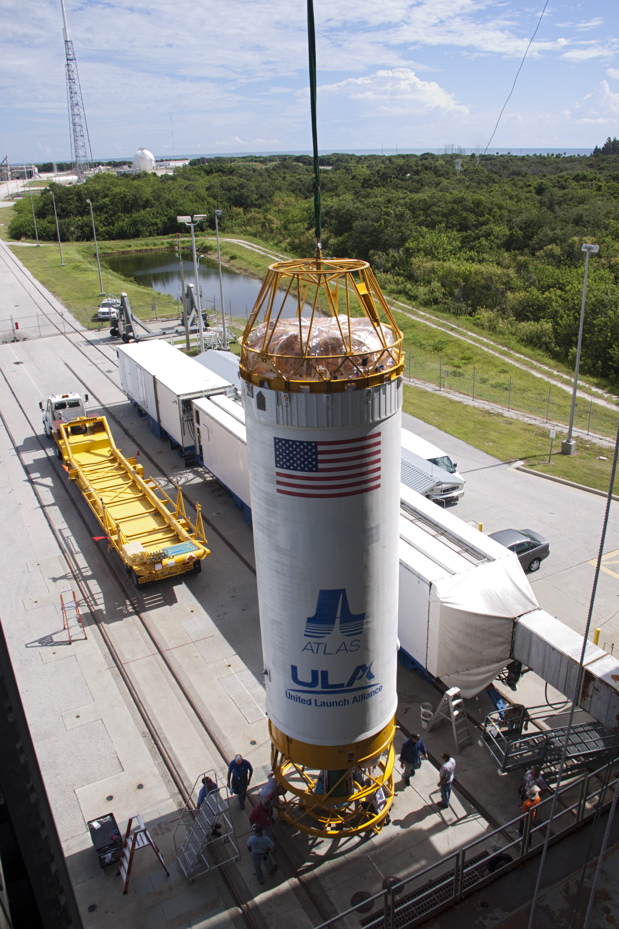 CAPE CANAVERAL, Fla. – At Space Launch Complex 41 at Cape Canaveral Air Force Station, Fla., the Centaur stage is being lifted for mating with the Atlas V rocket, which will launch the Radiation Belt Storm Probes, or RBSP, spacecraft. NASA’s RBSP mission will help us understand the sun’s influence on Earth and near-Earth space by studying the Earth’s radiation belts on various scales of space and time. RBSP will begin its mission of exploration of Earth’s Van Allen radiation belts and the extremes of space weather after its liftoff aboard a United Launch Alliance Atlas V from Cape Canaveral. Liftoff is targeted for Aug. 23, 2012. For more information, visit Alliance Atlas V rocket into the vertical position. The Atlas V is being prepared for the Radiation Belt Storm Probes, or RBSP, mission. NASA’s RBSP mission will help us understand the sun’s influence on Earth and near-Earth space by studying the Earth’s radiation belts on various scales of space and time. RBSP will begin its mission of exploration of Earth’s Van Allen radiation belts and the extremes of space weather after its launch aboard an Atlas V rocket. Launch is targeted for Aug. 23. For more information, visit